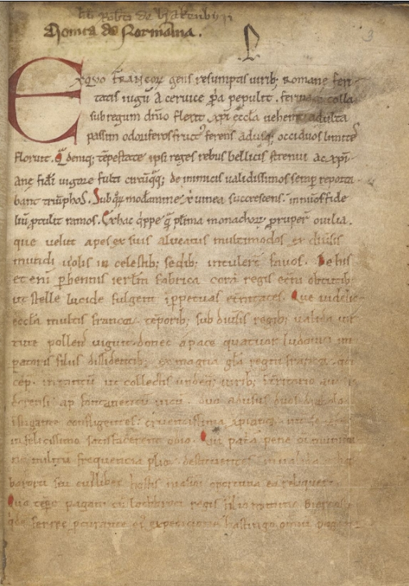 Gesta Normannorum ducum BL Harley 491 f. 3r: first page of text